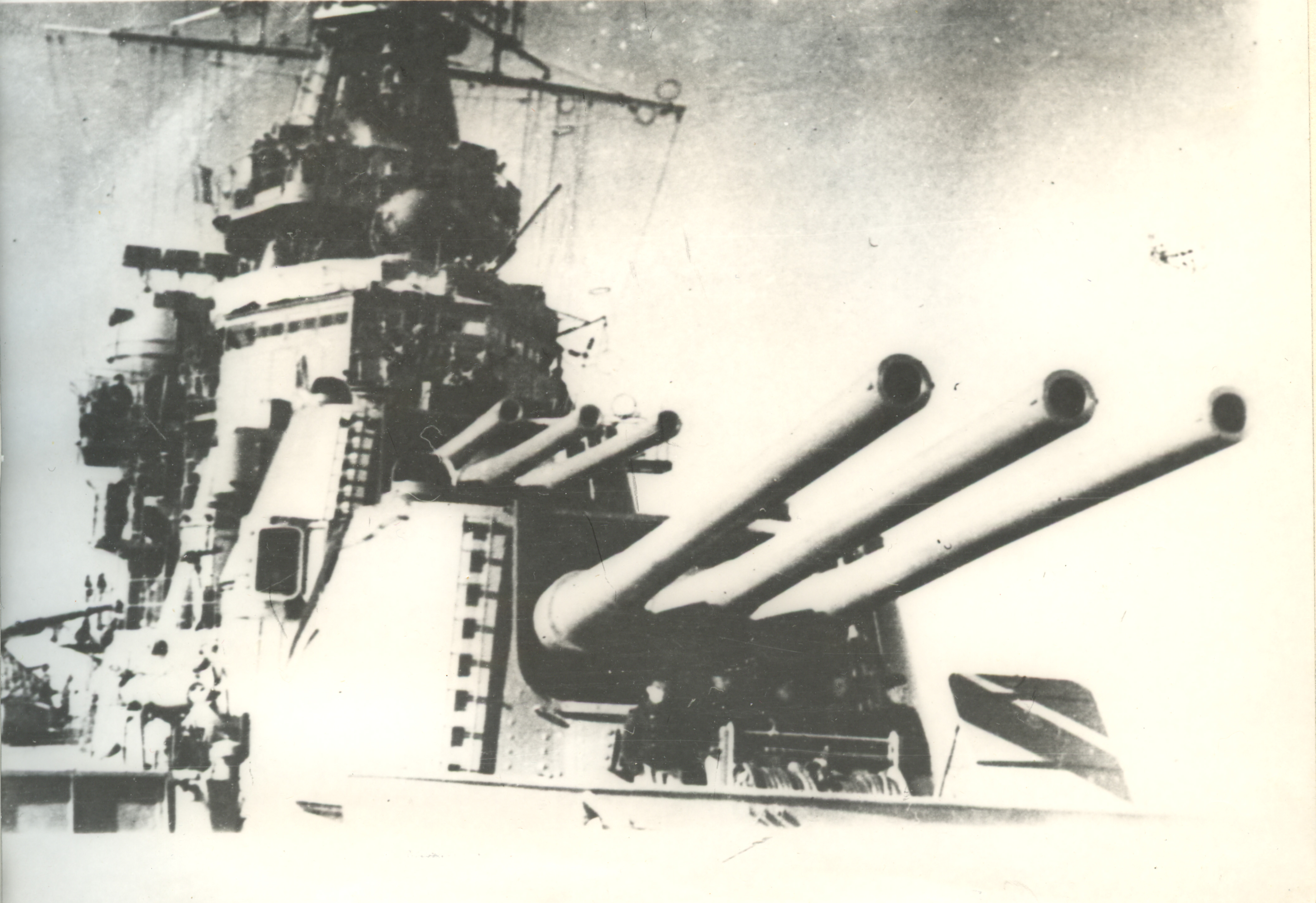 Main battery Cruisers Voroshilov, 1942